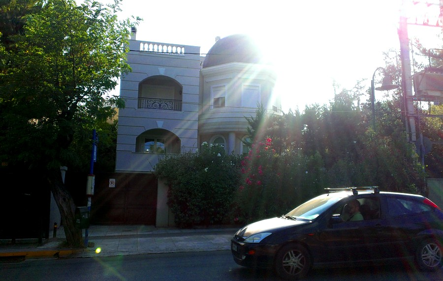 psychikon